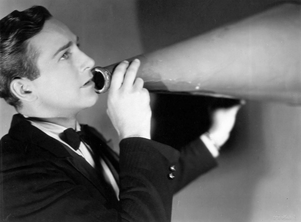 Photo from the 1932 film Crooner.